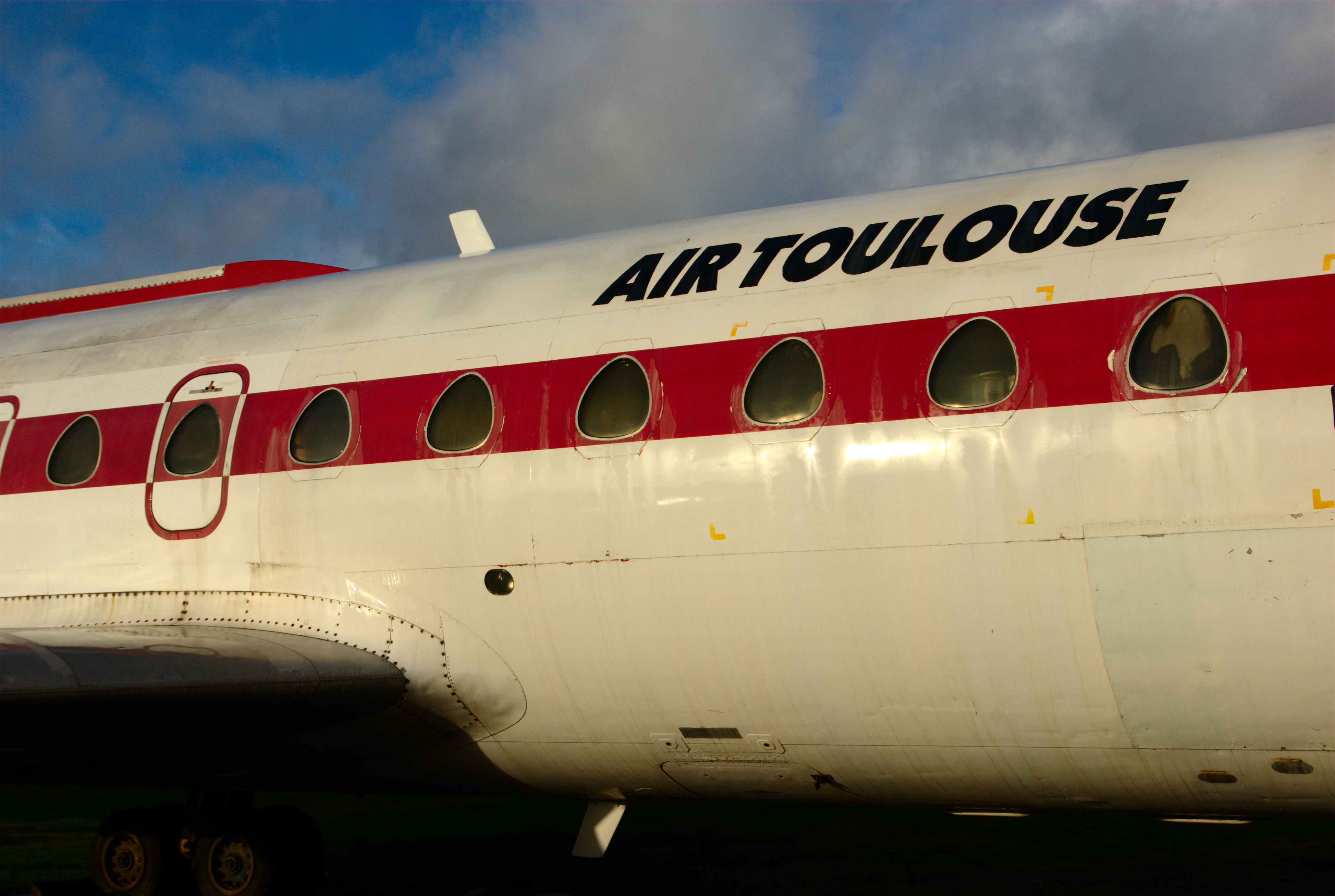 A Caravelle Super 10 in Air Toulouse delivery. The aircraft is being restored to the musée des ailes anciennes (Toulouse, France).